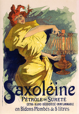 Affiche: Saxoléine